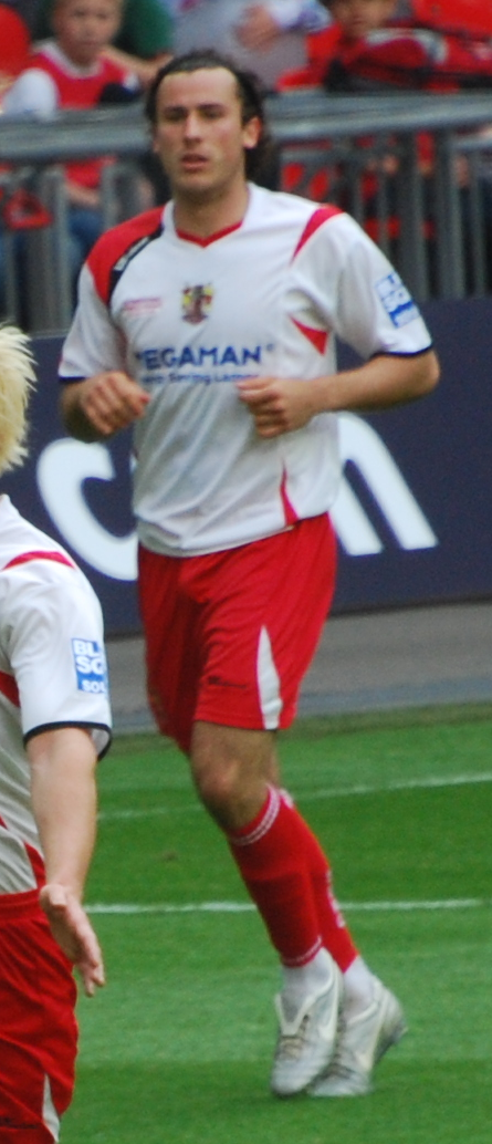 Lawrie Wilson. Image cropped from original at flickr.